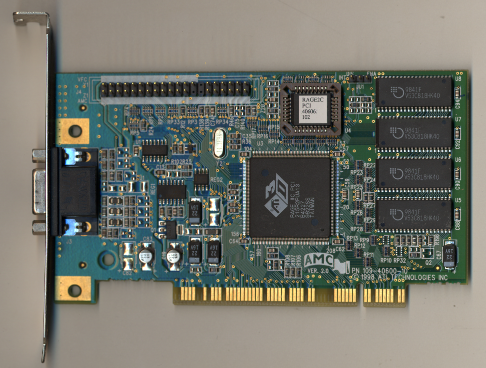 ATI Rage IIC, scanned by me